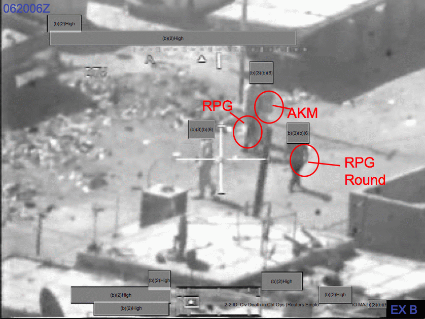 Exhibit B of the Army report on "INVESTIGATION INTO CIVILIAN CASUALTIES RESULTING FROM AN ENGAGEMENT ON 12 JULY 2007 IN THE NEW BAGHDAD DISTRICT OF BAGHDAD, IRAQ"